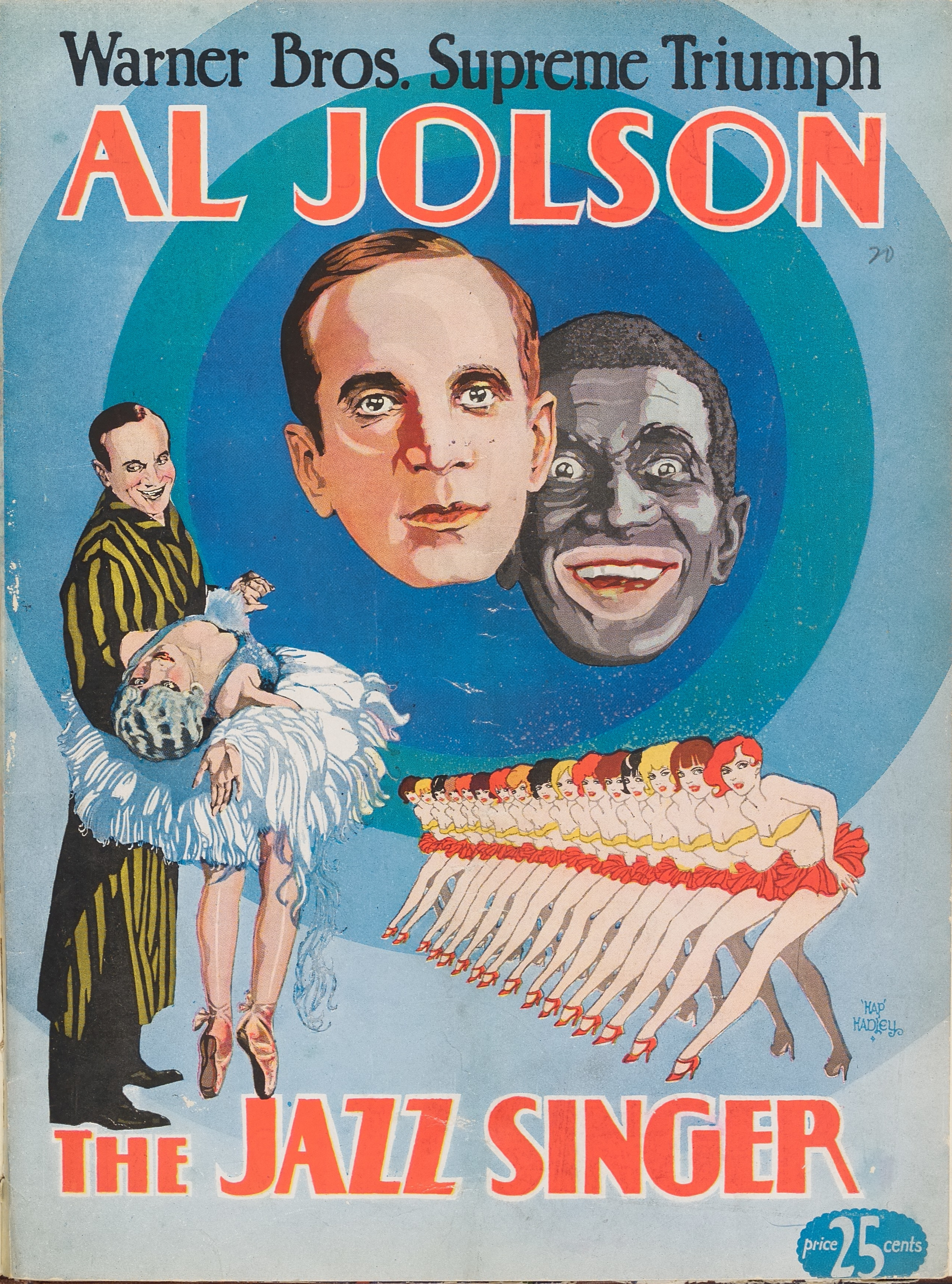 Cover to a souvenir program for The Jazz Singer, featuring Al Jolson